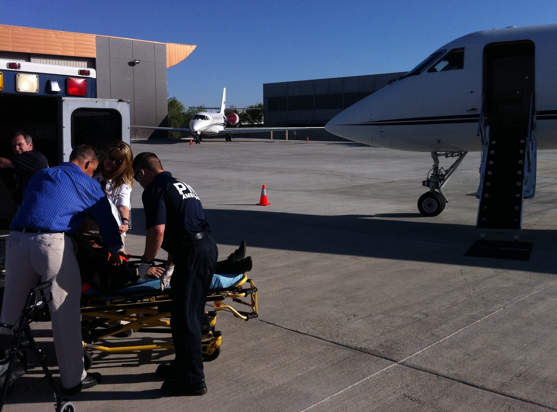 Gulfstream Air Ambulance being loaded with patient by medics and nurses for a Mercy Jets medical transport